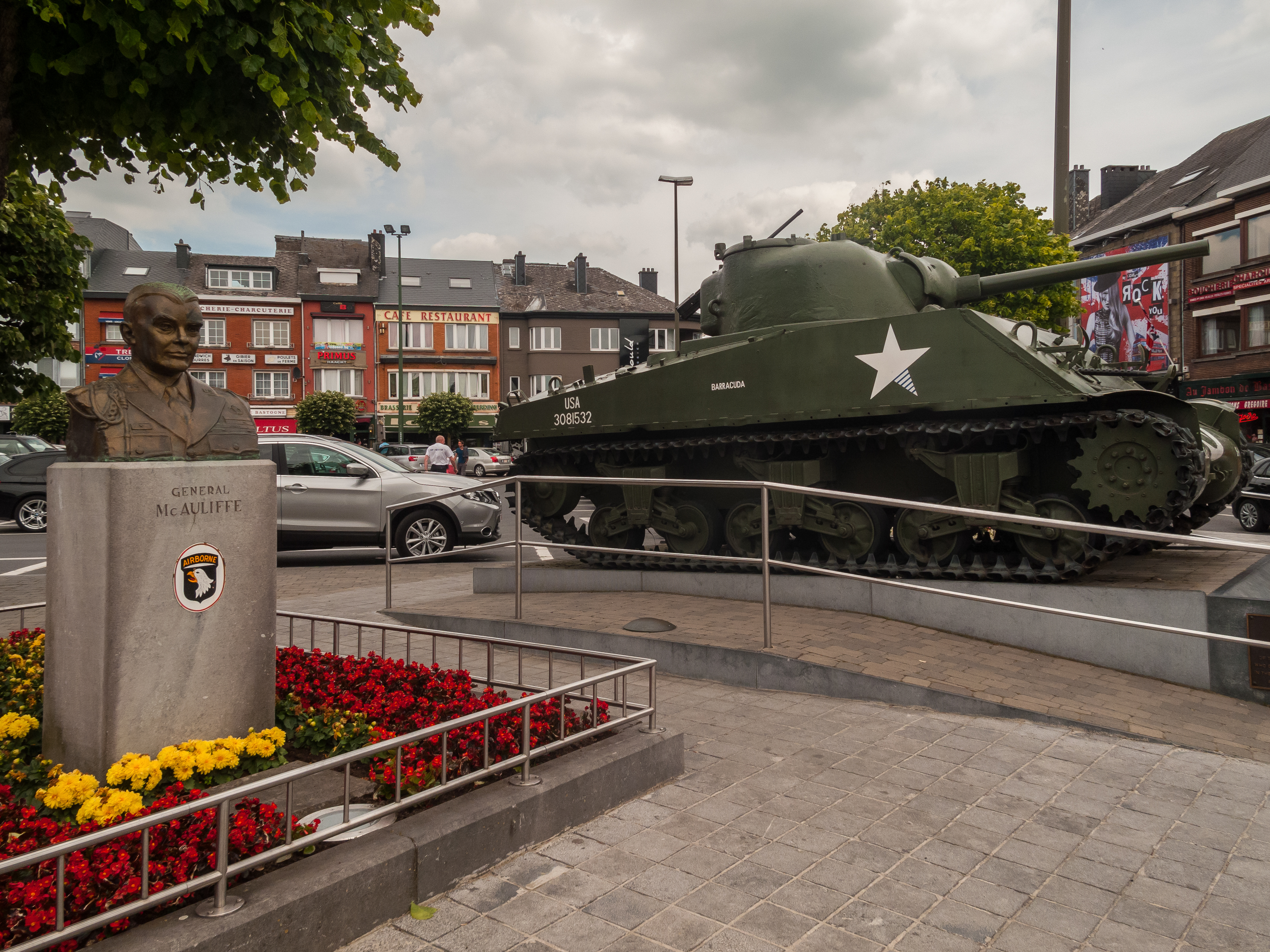 Bastogne, Shermantank on Place General McAuliffe with bust